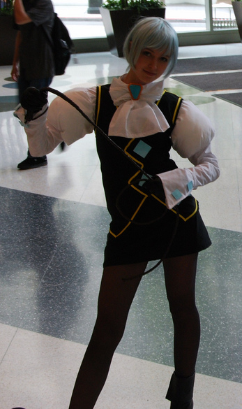 A woman cosplaying as Franziska von Karma (Mei Karuma in the Japanese version), from the Ace Attorney video game series.